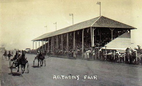 Anthony Downs horse racing track in Anthony, Kansas, shortly after opening in 1904